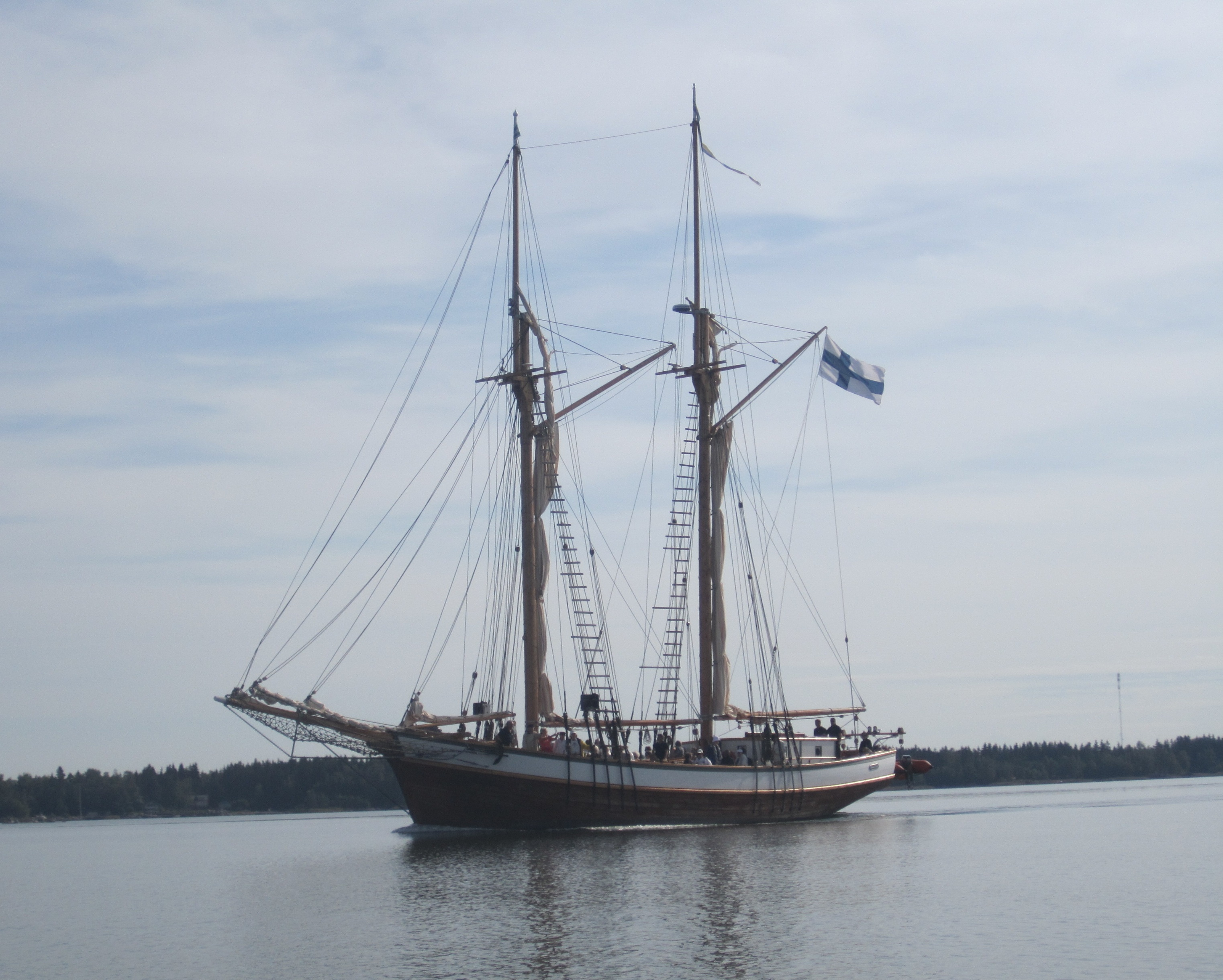 Galeas Ihana. Built in Luvia, Finland 2006-2010.